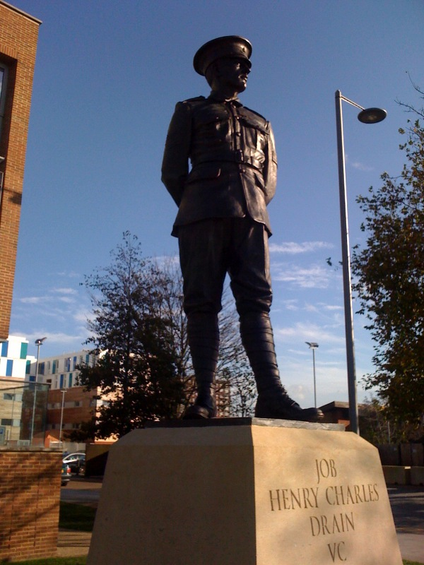 Statue of Job Drain VC, public memorial erected in his former home town of Barking, London in autumn 2009.